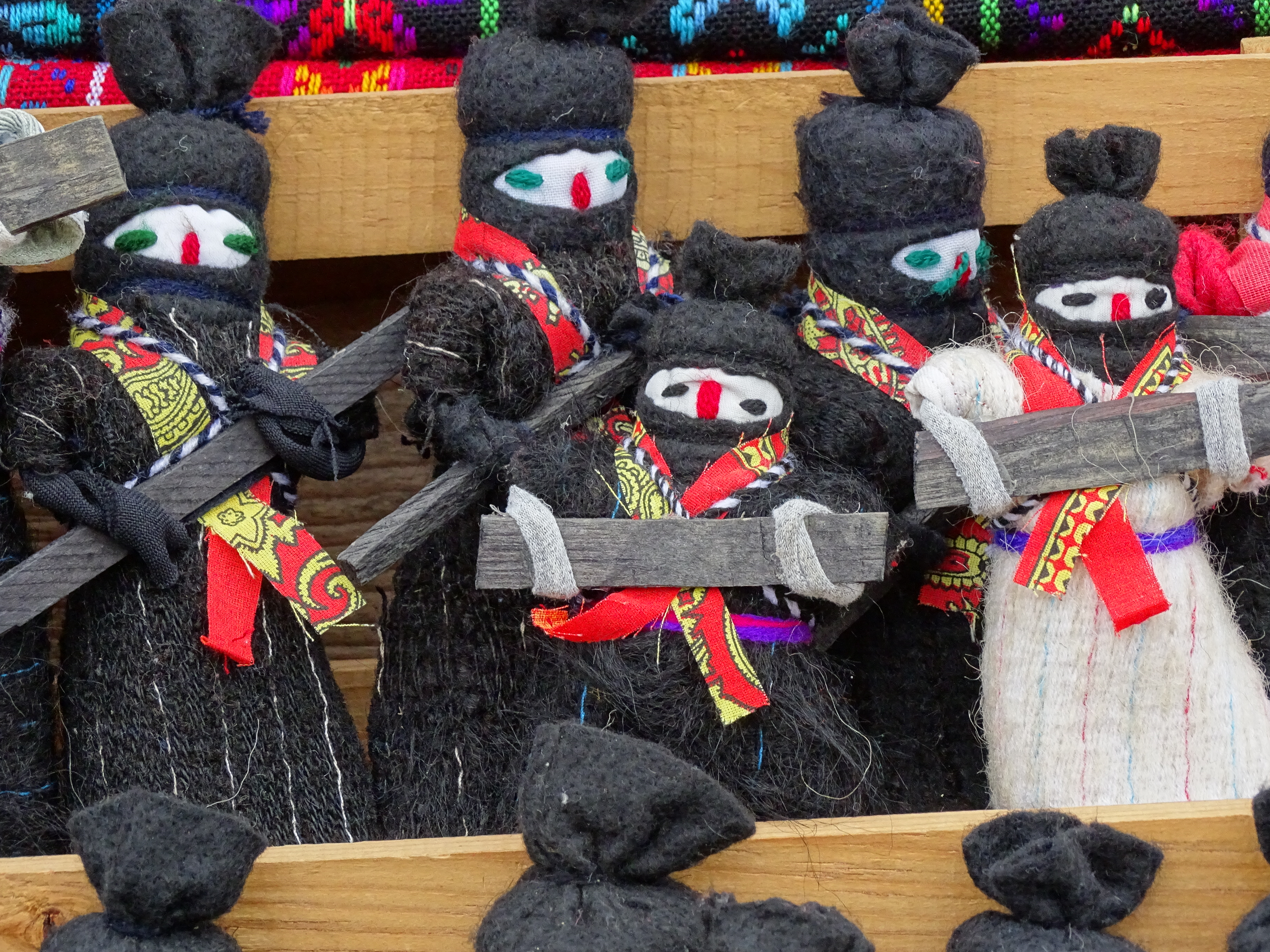 Zapatista Dolls for Sale - Chamula - Chiapas - Mexico - 02